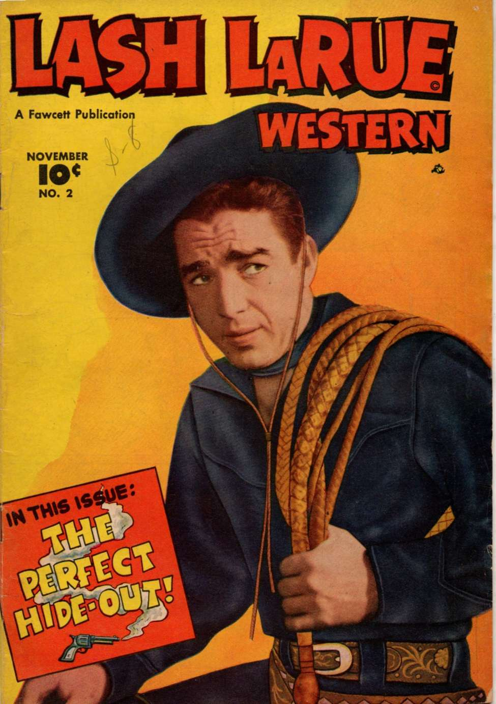 Front cover of Lash Larie comic book (issue #2), December, 1949.